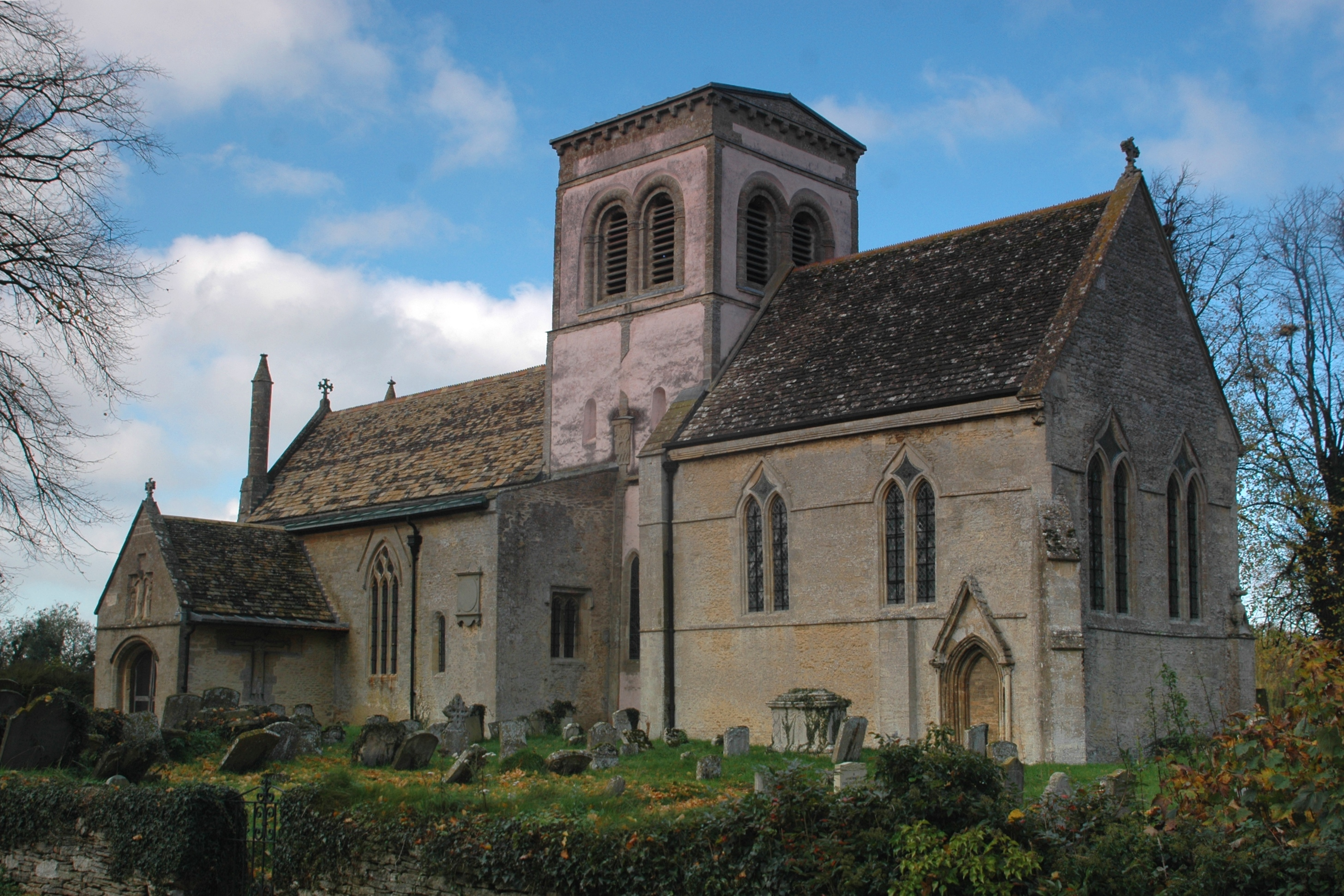 Church of England parish church of St. Matthew, Langford, Oxfordshire, seen from the southeast